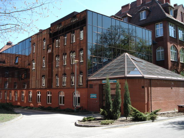 New wing of the Heliodor Święcicki Clinical Hospital No. 2 of the Poznan University of Medical Sciences